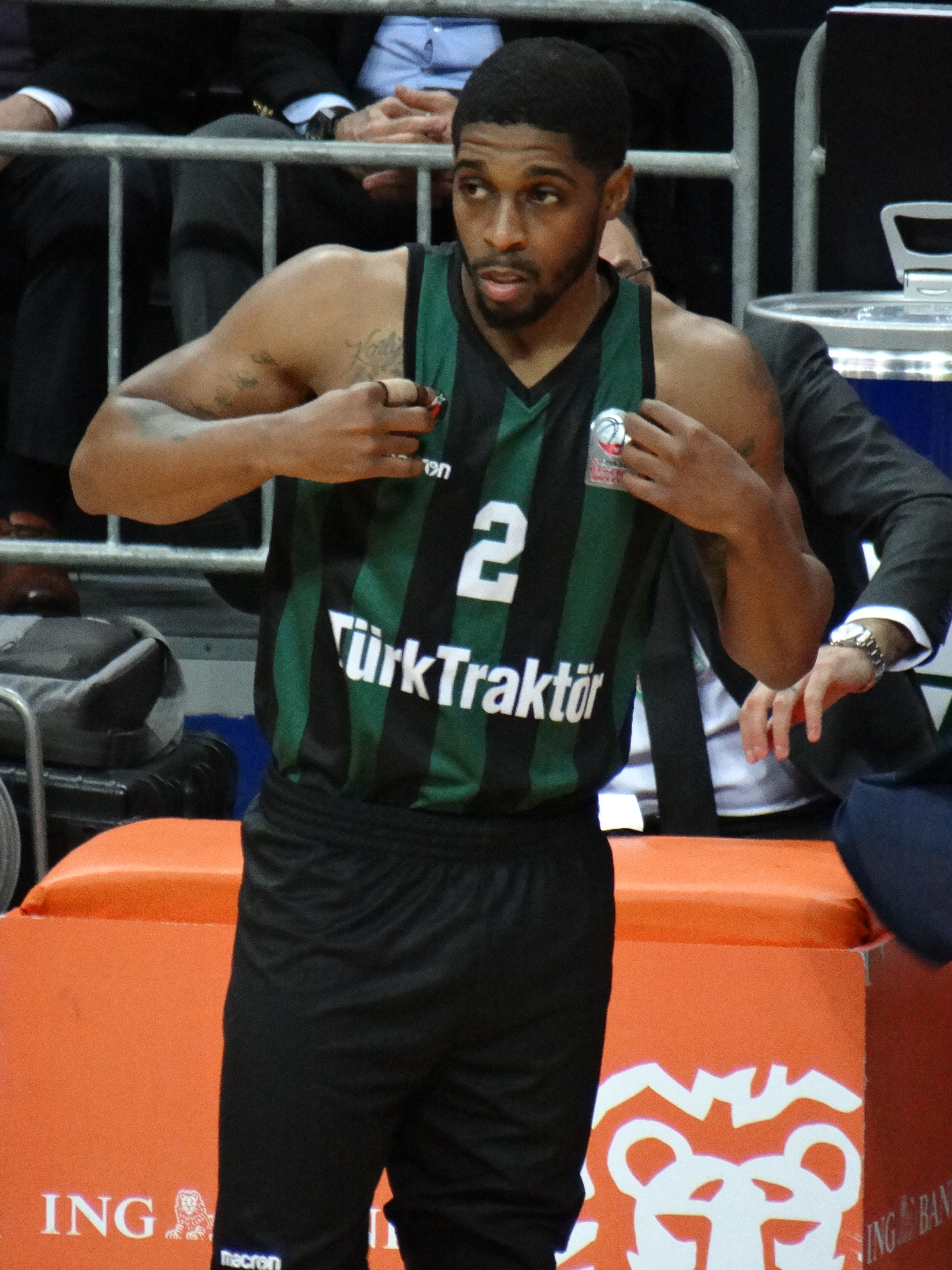 Lazeric Jones 2 Sakarya Büyükşehir Belediyespor 20180107